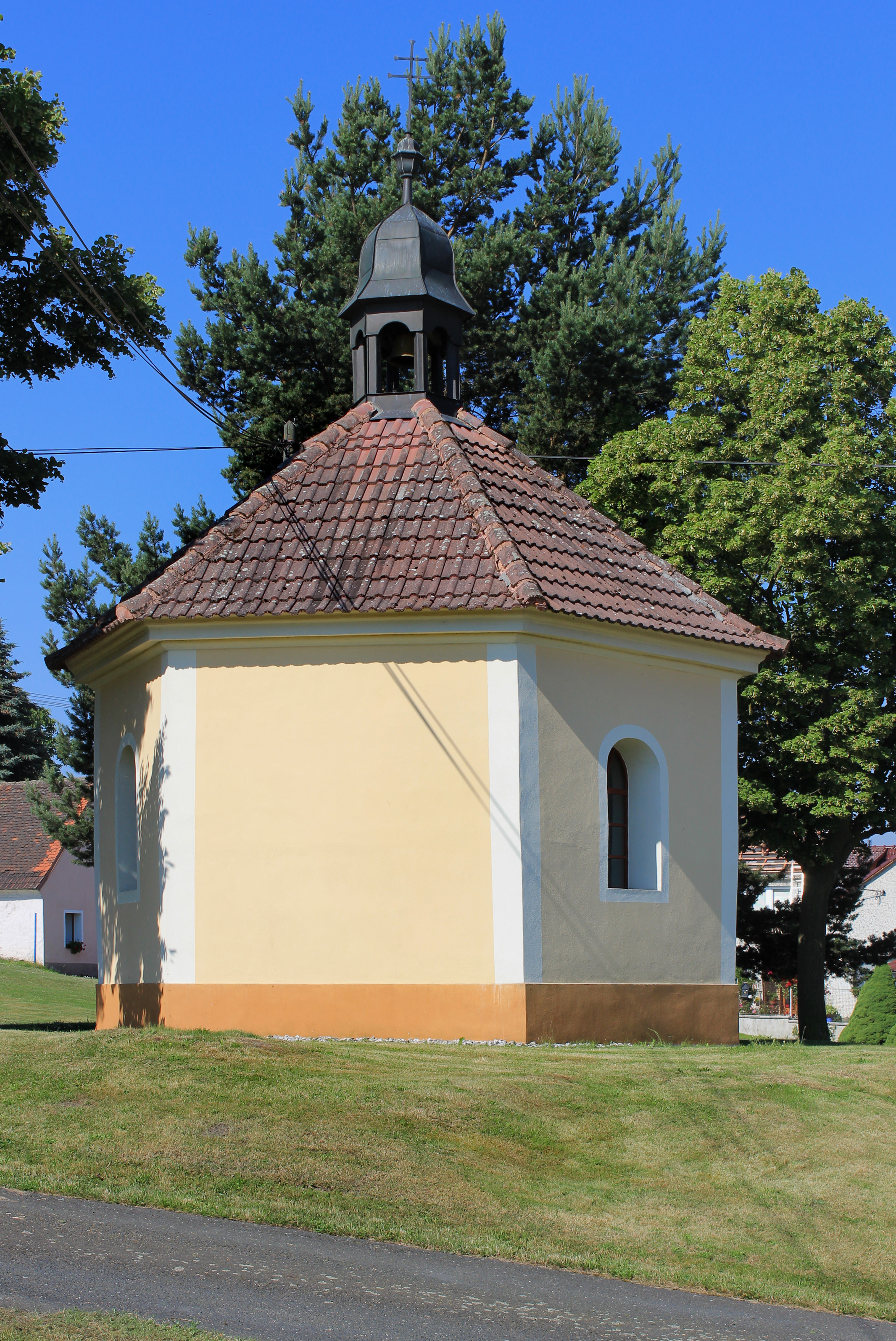 Chapel in Doubrava, part of Puclice, Czech Republic.